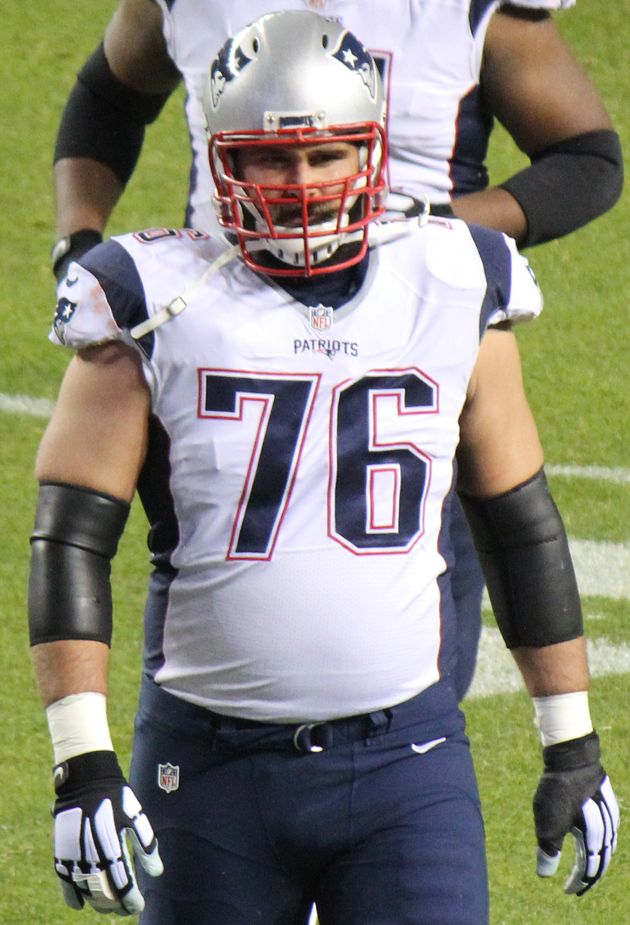 Sebastian Vollmer, a player on the National Football League.